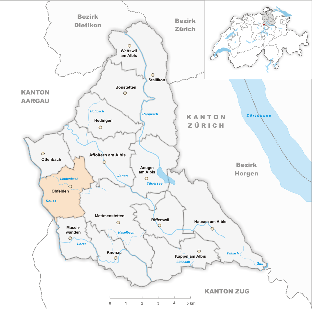 Municipality Obfelden